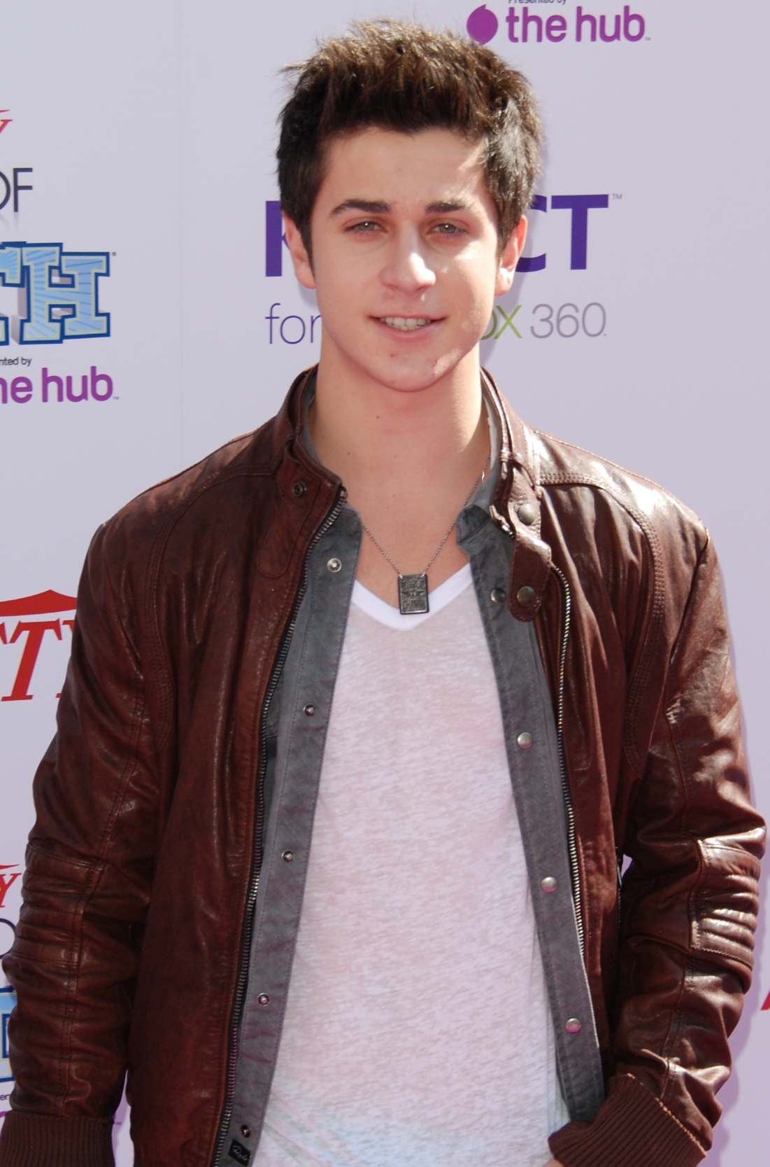 David Henrie attends the Variety's Power of Youth Event at Paramount Studios in Hollywood, CA, Oct 24, 2010